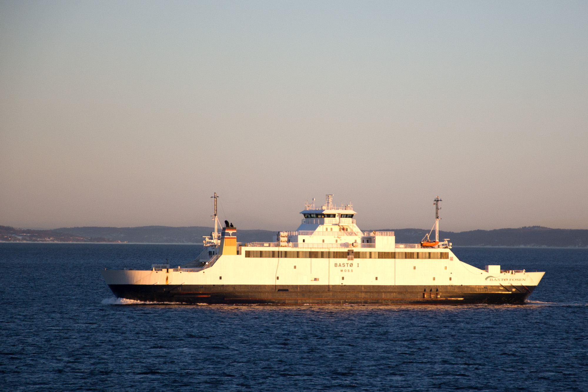 The ferry "Bastø I"